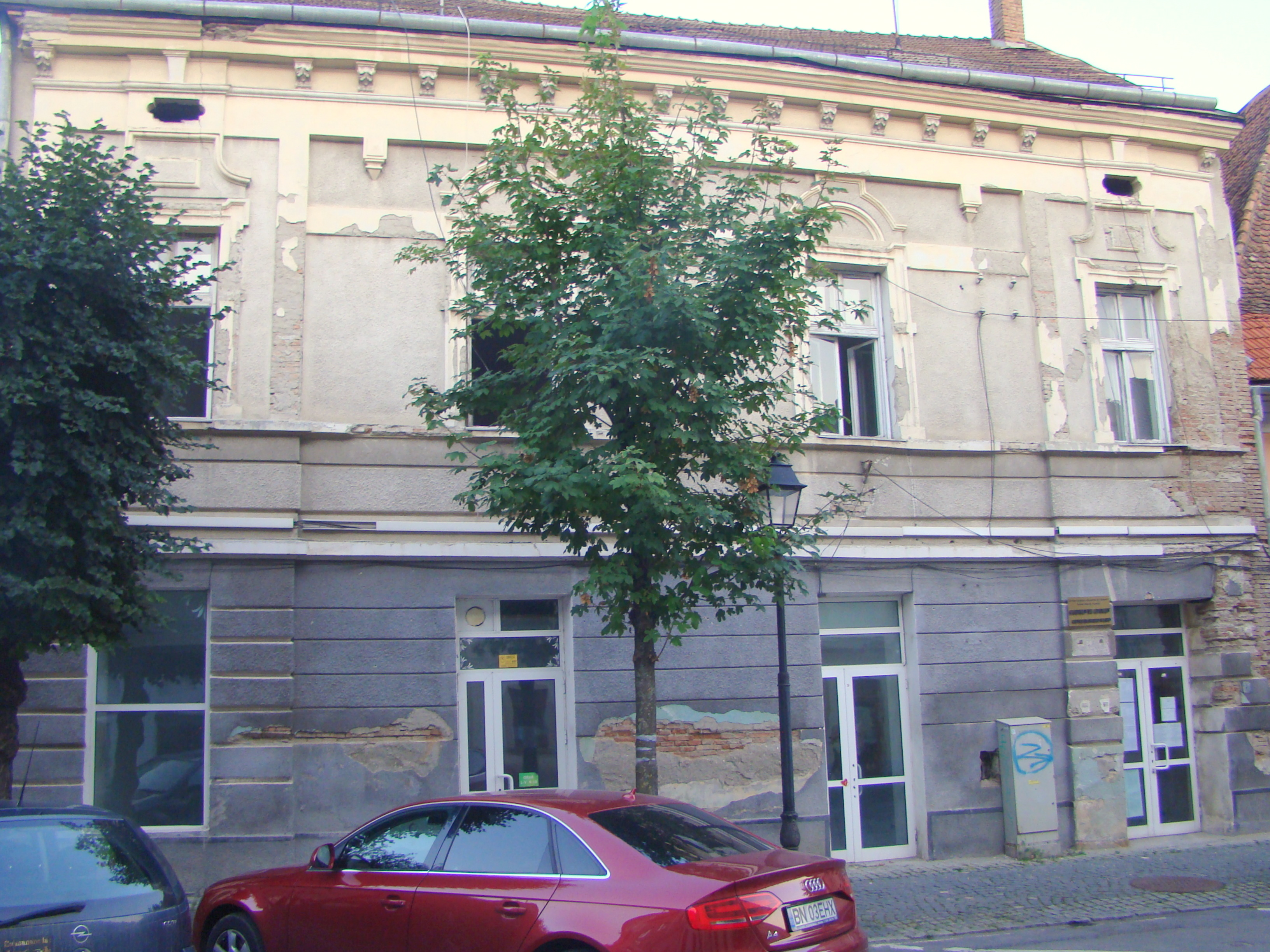 House, historic monument, in Bistrița, Nicolae Titulescu street 7